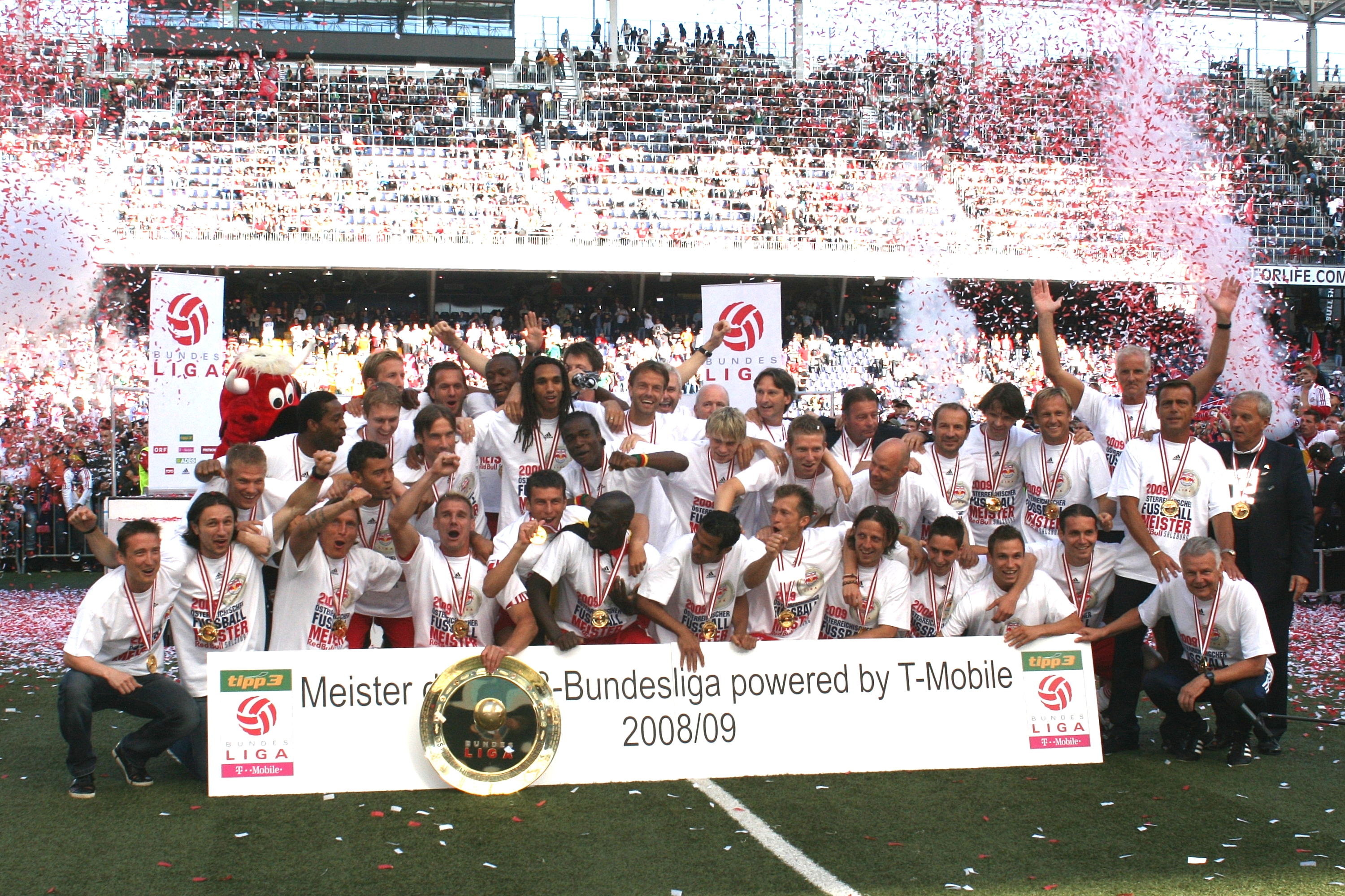 Red Bull Salzburg, the champions of the Austrian football Bundesliga 2009.